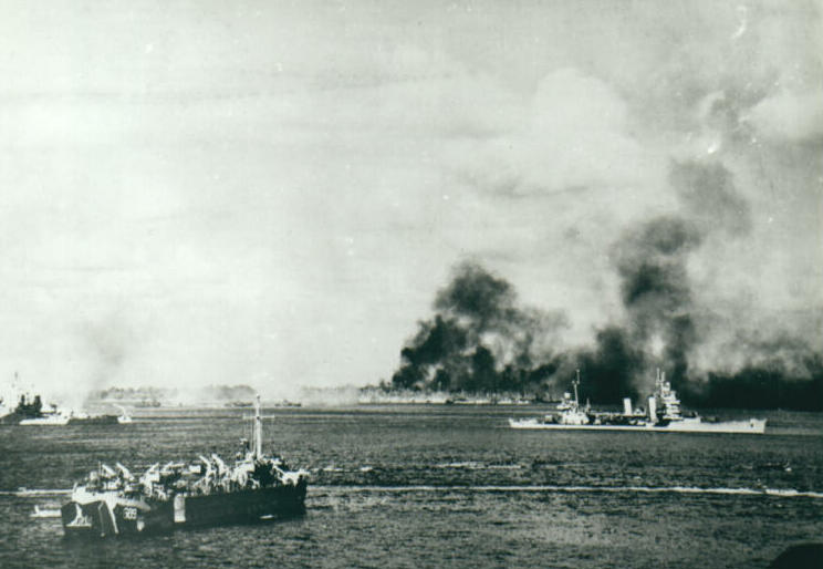 Bombardment of Anguar. Three U.S. Navy ships of Task Group 32.12 are visible (l-r): the battleship USS Tennessee (BB-43), wearing camouflage Measure 32 Design 1D; LST-689; and the heavy cruiser USS Minneapolis (CA-36), which wore a unique camouflage that should give her the shilouette of a destroyer.